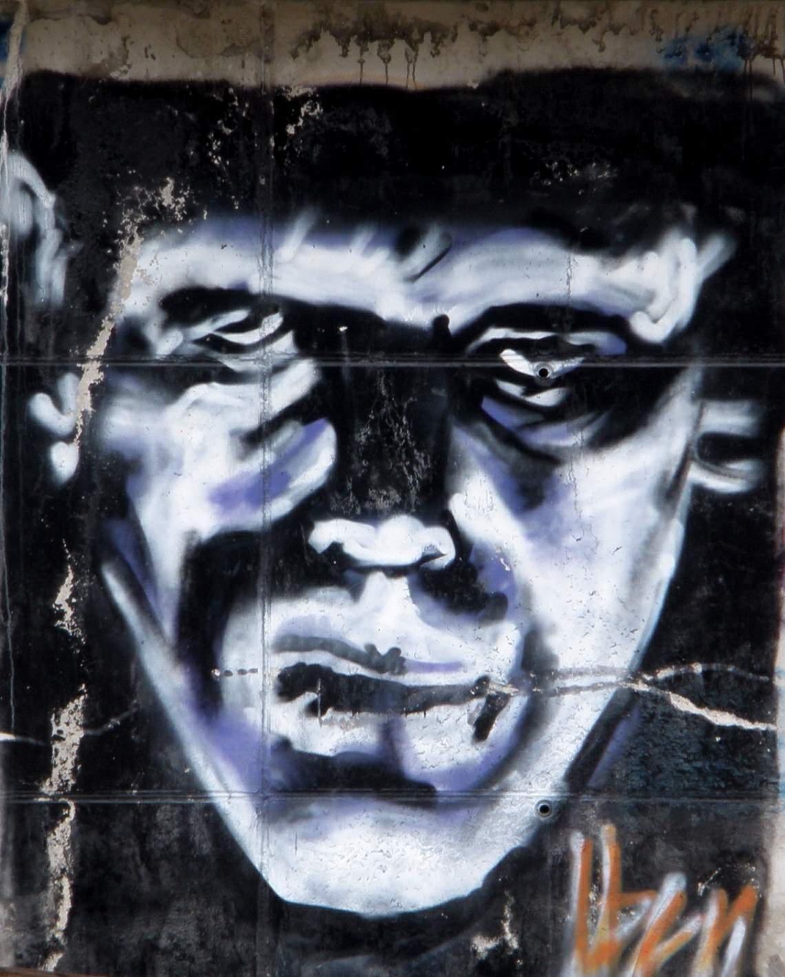 Graffiti junto a las vías del tren, cerca de la estación de Renfe de Vitoria-Gasteiz